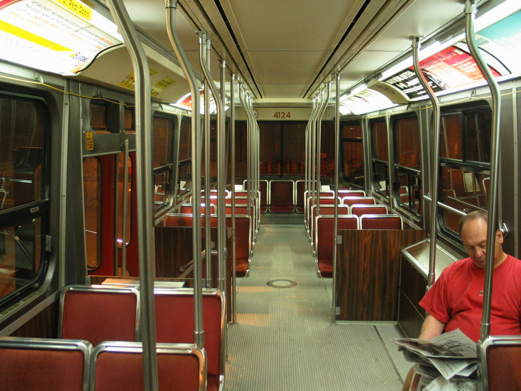 Inside Toronto Streetcar. Looking toward rear.